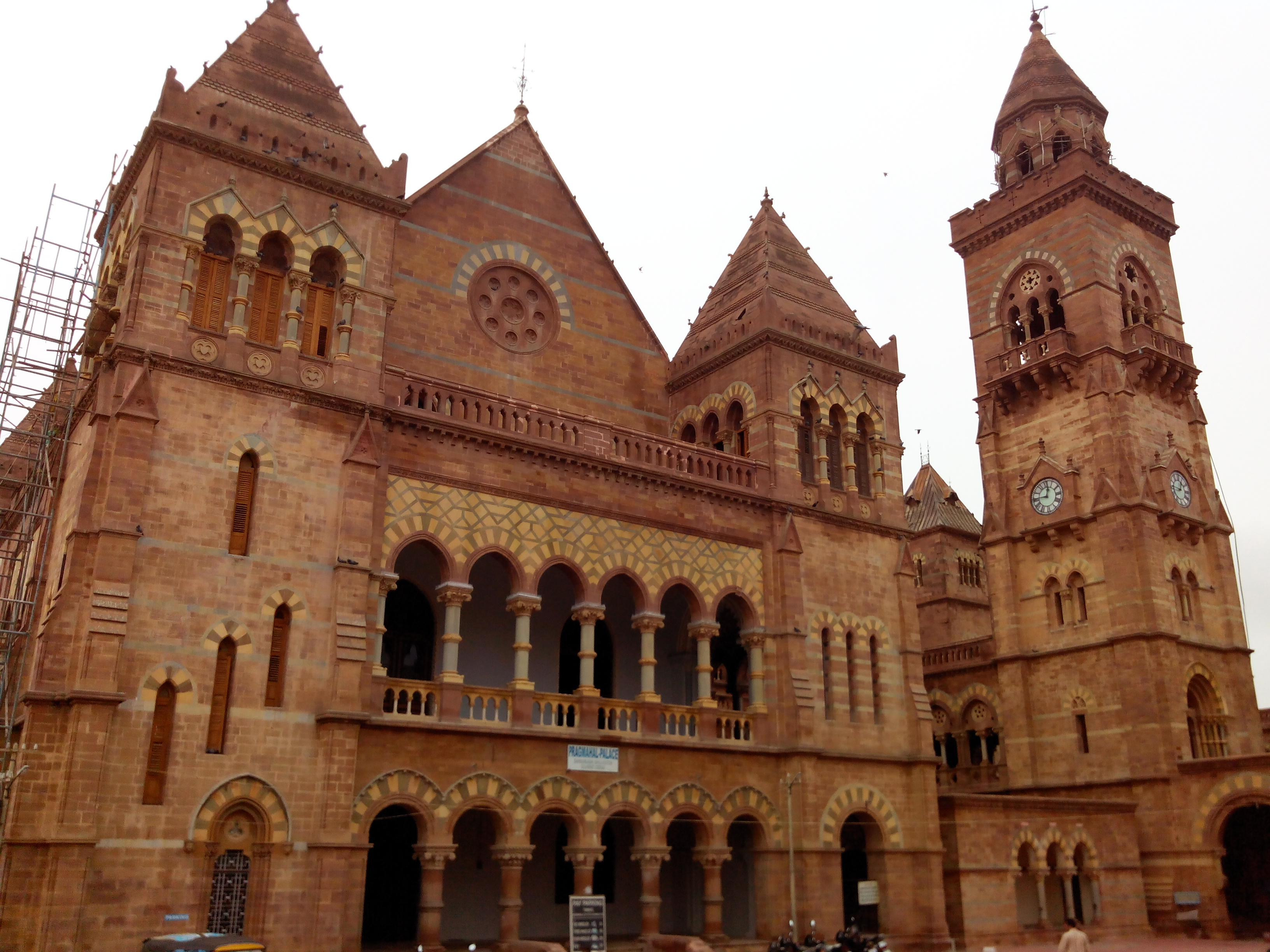 Prag Mahal was a palace of rulers of Kutch, Gujarat, India